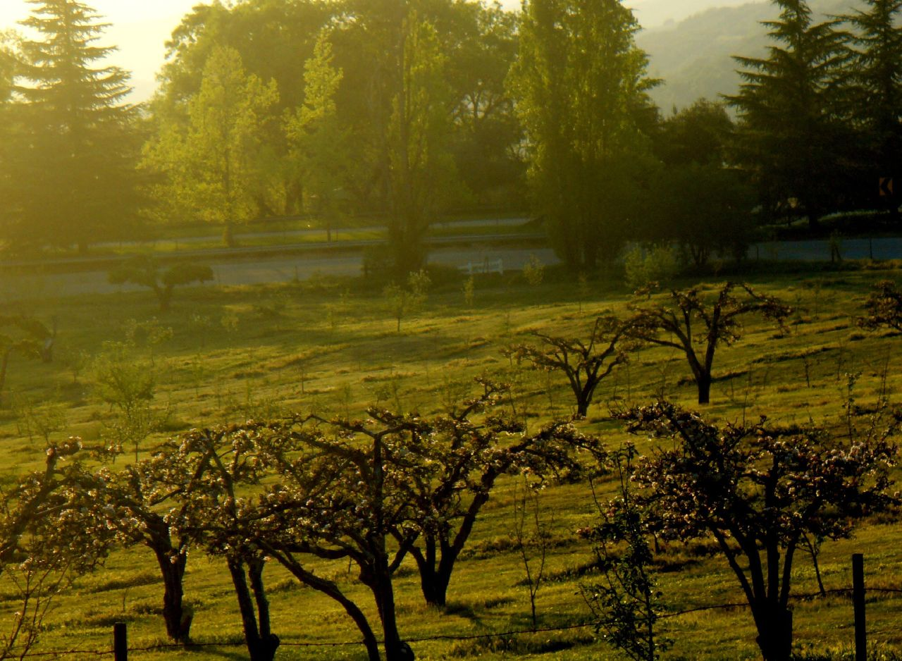 Oak Glen apple orchard, in the San Bernardino Mountains foothills, San Bernardino County, California